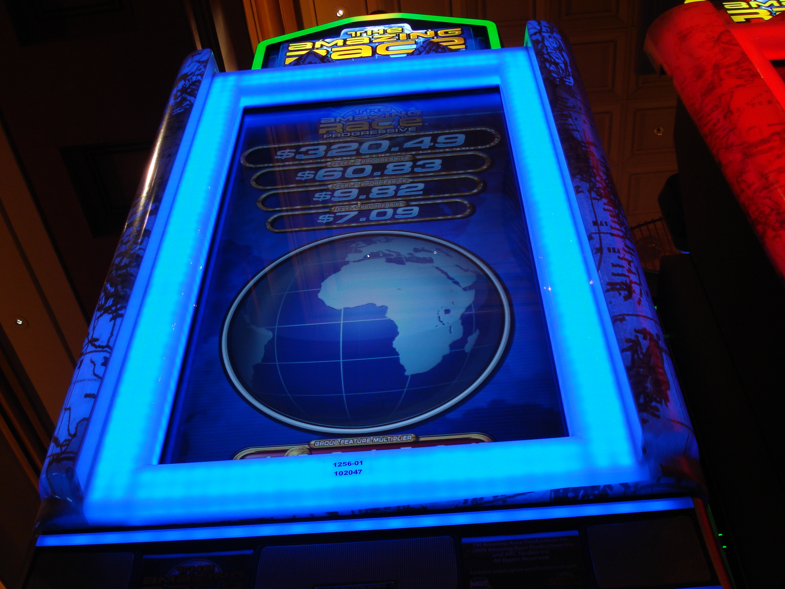 A photo of The Amazing Race slot machine game taken on June 21, 2010.